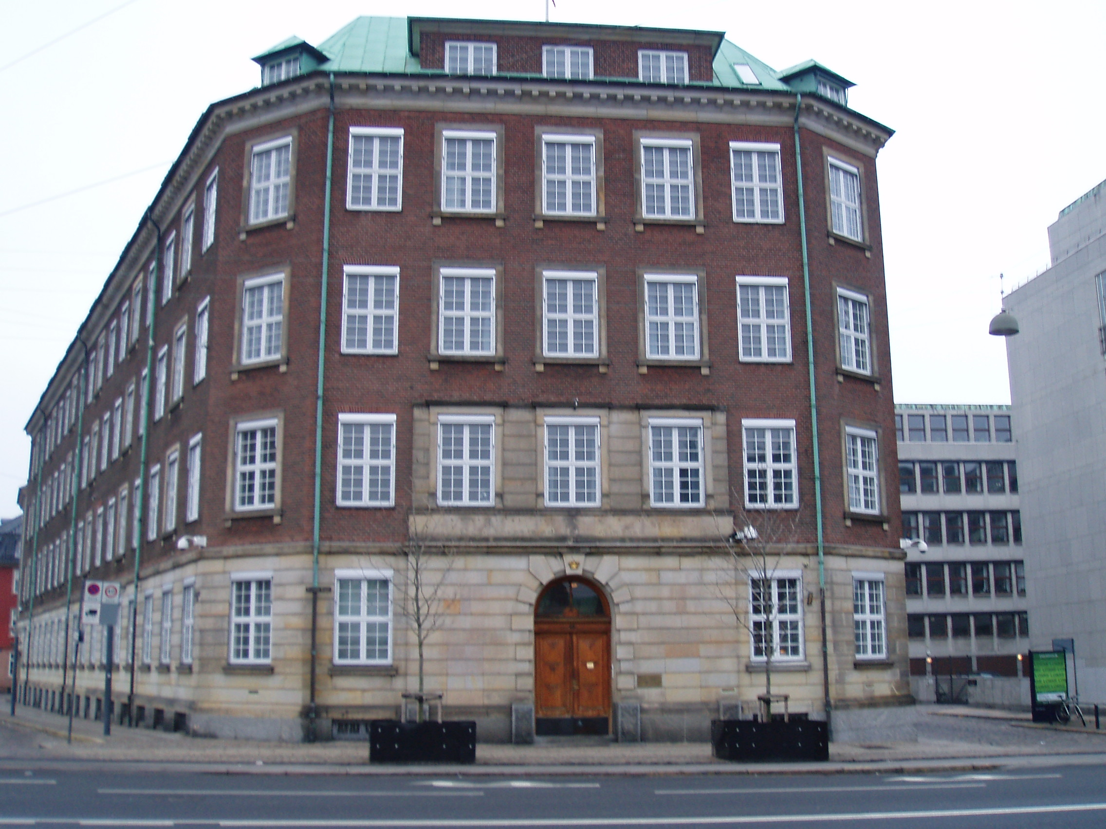 Entrance to Danish Ministry of Defence. Ministry of Social Affairs on the right.